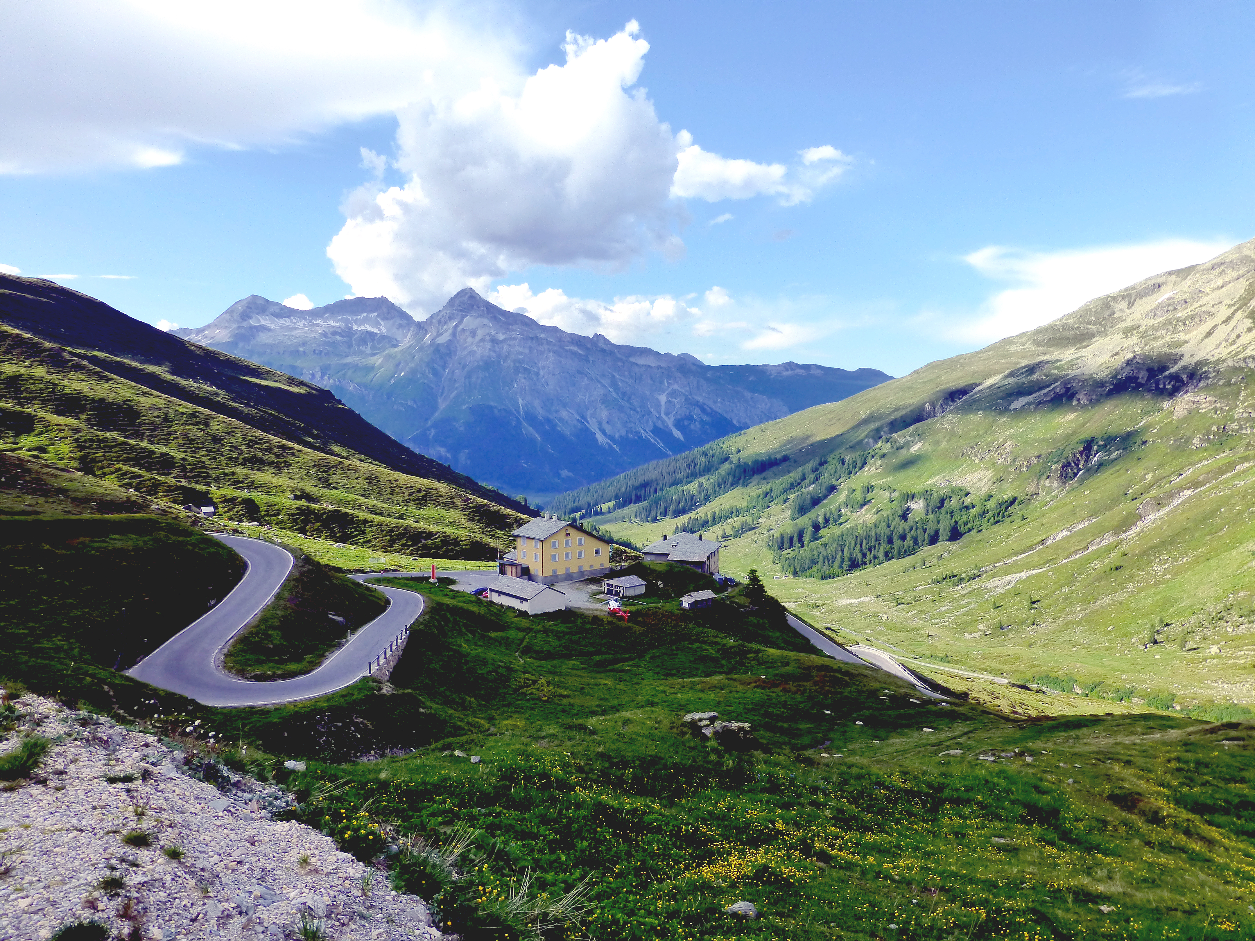 Splügen Pass, Switzrerland